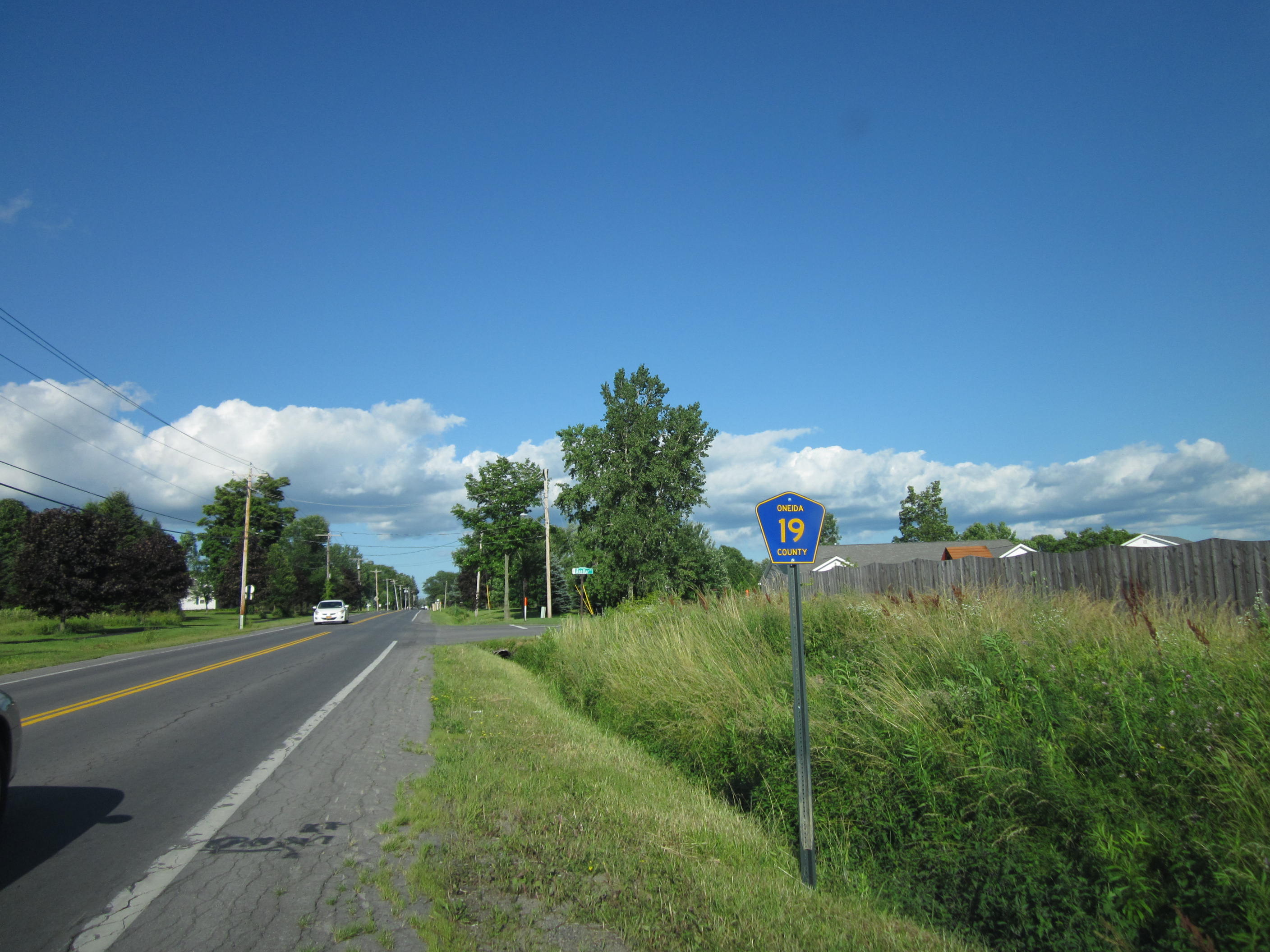 Oneida County Route 19 shield on the side of the highway.